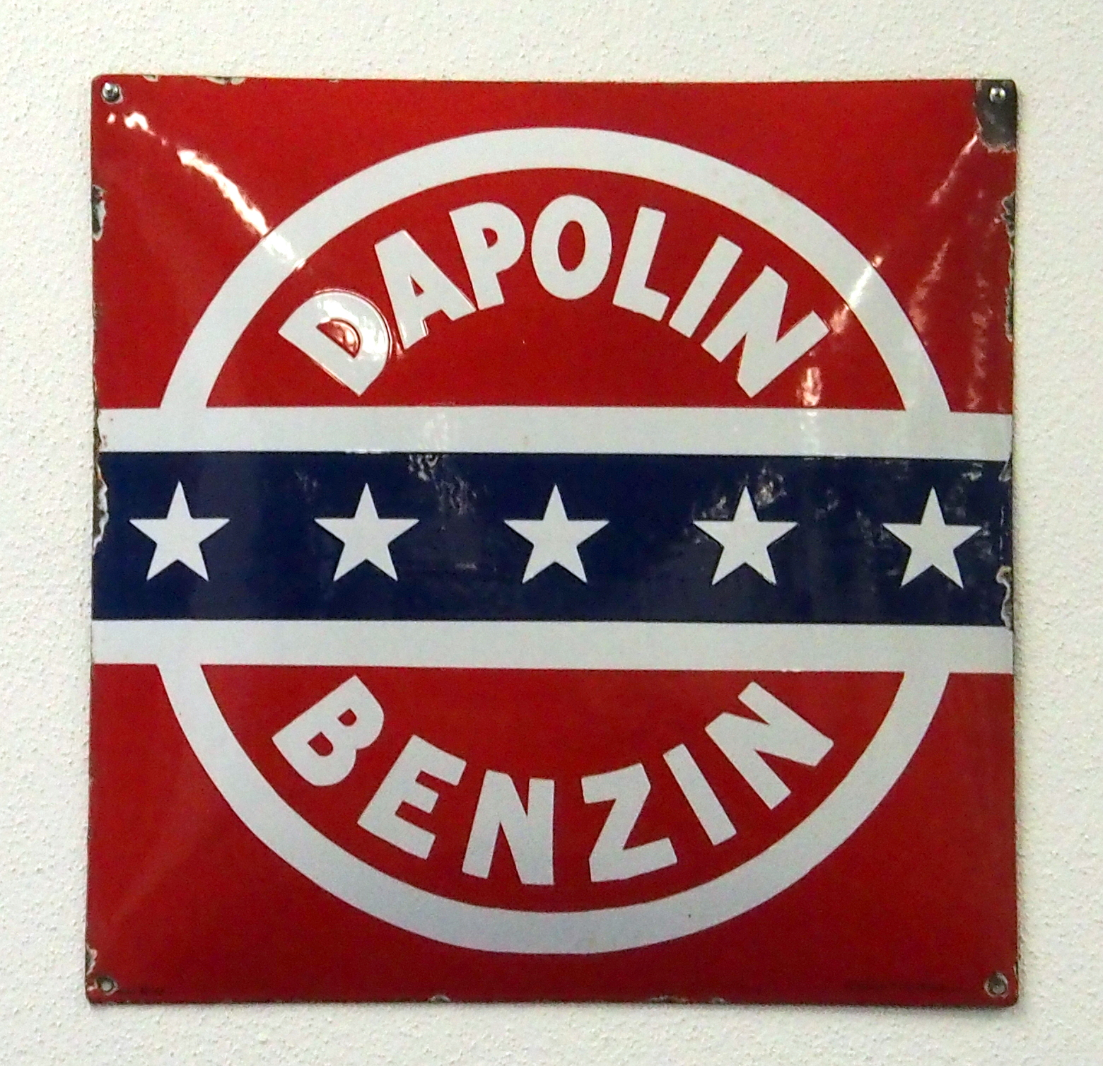 Photographed at the Auto & Uhrenwelt Schramberg museum.